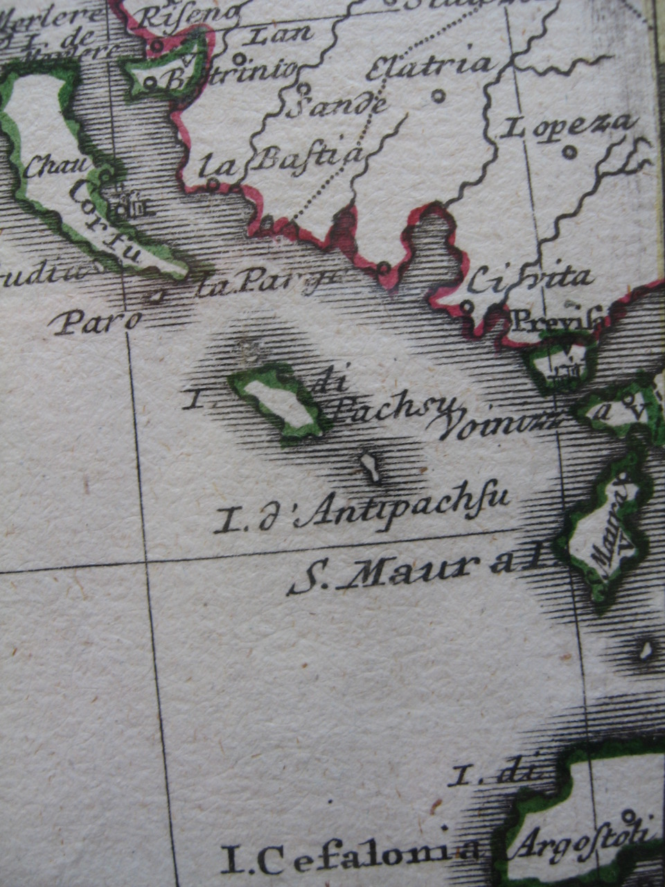 Venetian possessions (in green) of the Ionian Sea area in the 18th century. After the Treaty of Passarowitz (1718), the Venetian seaborne empire outside the Adriatic was reduced to the Ionian Islands (including Cerigo off the Peloponnesus) and three precarious beachheads on the continent: Butrinto, Preveza and Vonitsa. Cropped from a map of Italy and surrounding area published by Homann Heirs in 1742.